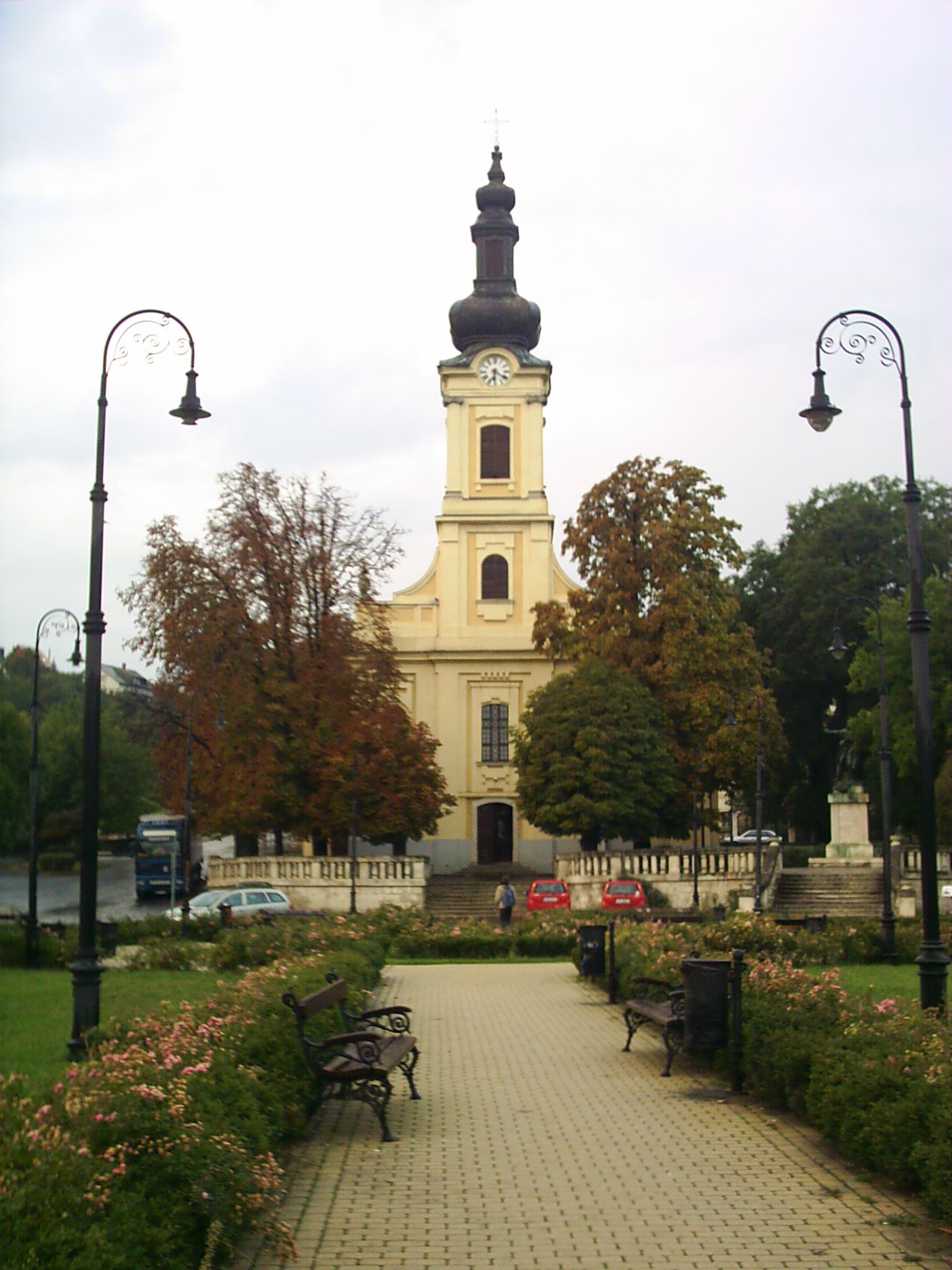 Baroque church, Budapest 22, Savoyai square